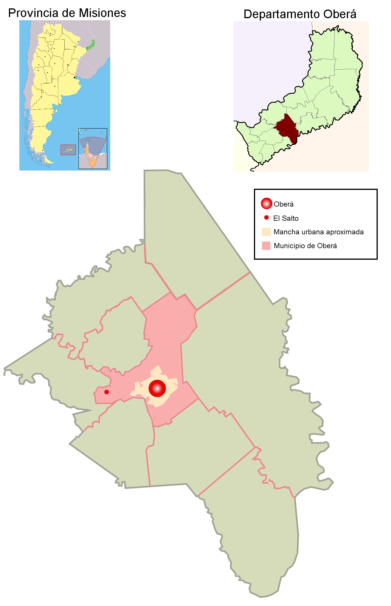 A map showing municipio of Oberá in Oberá departament, Misiones province, Argentina. Also shows Oberá city location, its urban sector and El Salto town location. Created with GIMP.